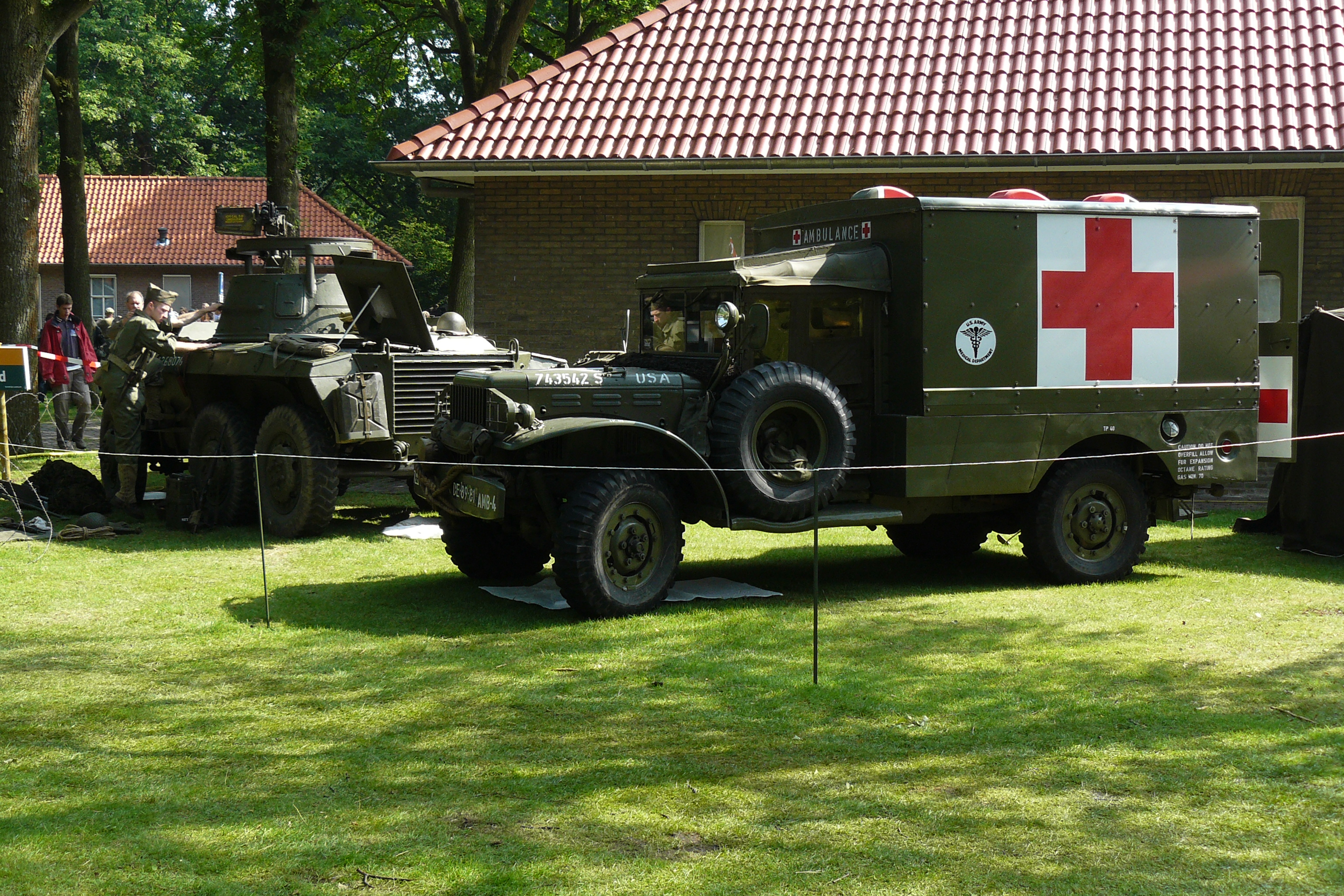 Dodge WC64 ambulance and a M8 Greyhound.